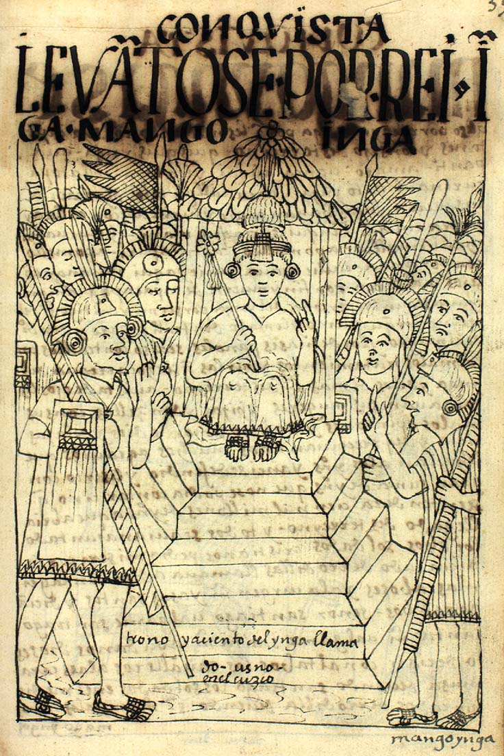 The newly reigning Manco Inka in his ceremonial throne in Cuzco